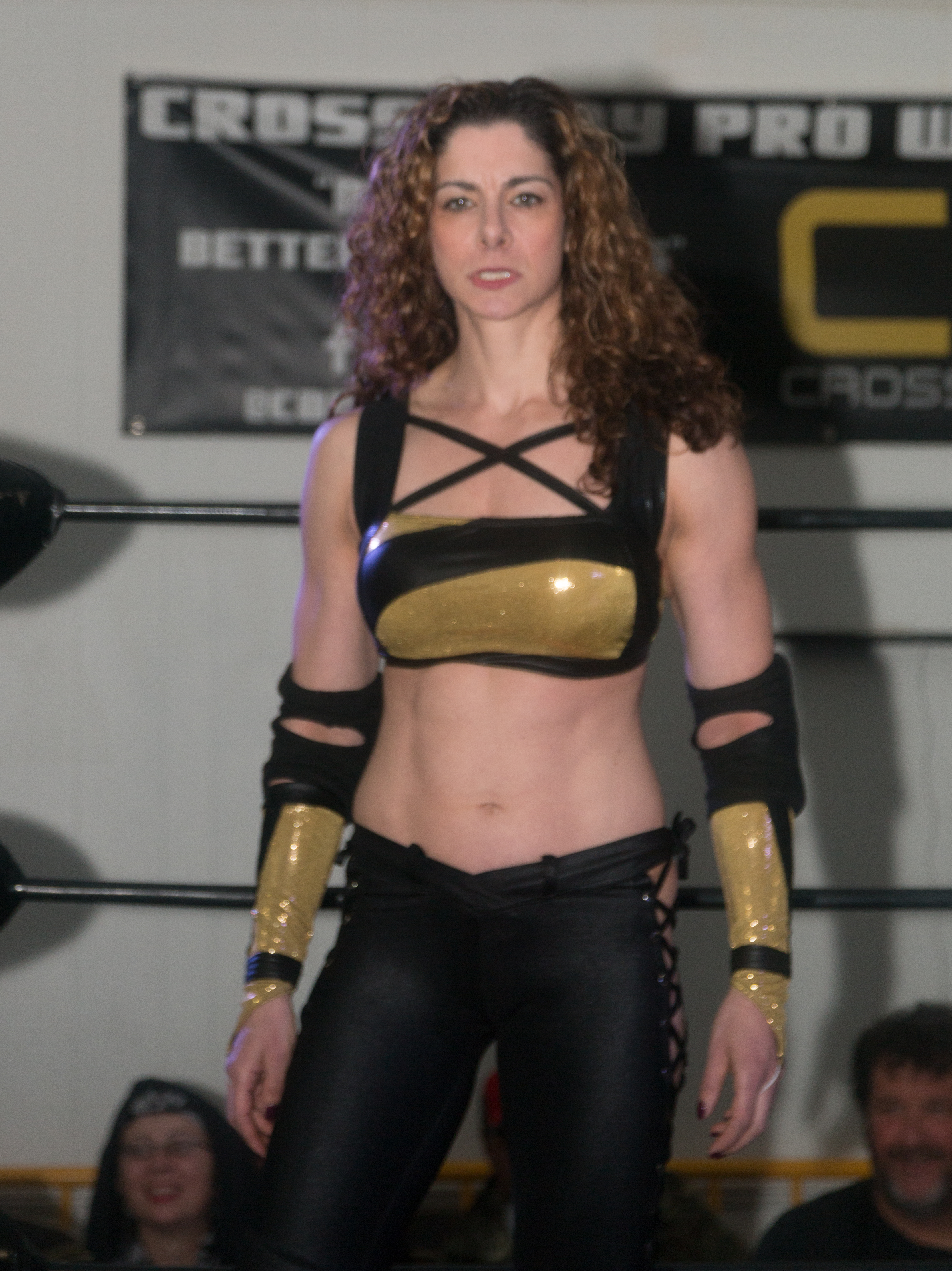 Independent wrestler Danyah at a Crossbody Pro Wrestling show in Kitchener, ON